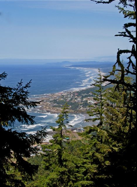 This is a view of Yachats, Oregon, from the summit of Cape Perpetua.